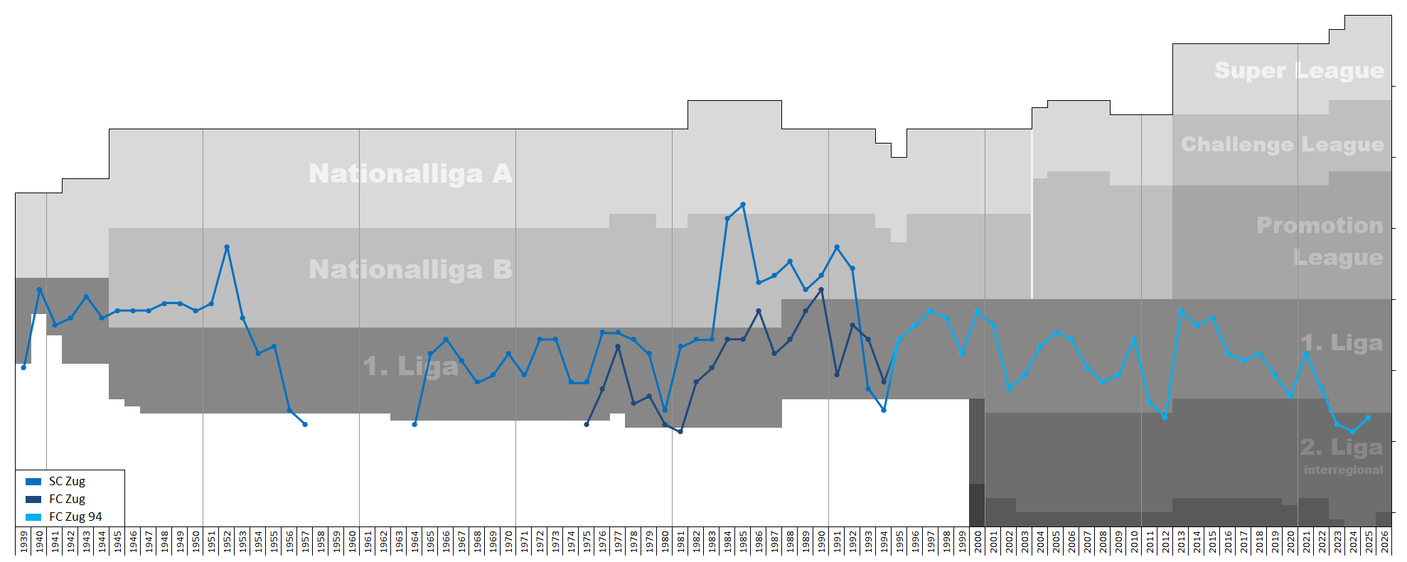 Chart of end-season table positions of Zug 94 in the Swiss football league system. Data source: RSSSF, , football.ch